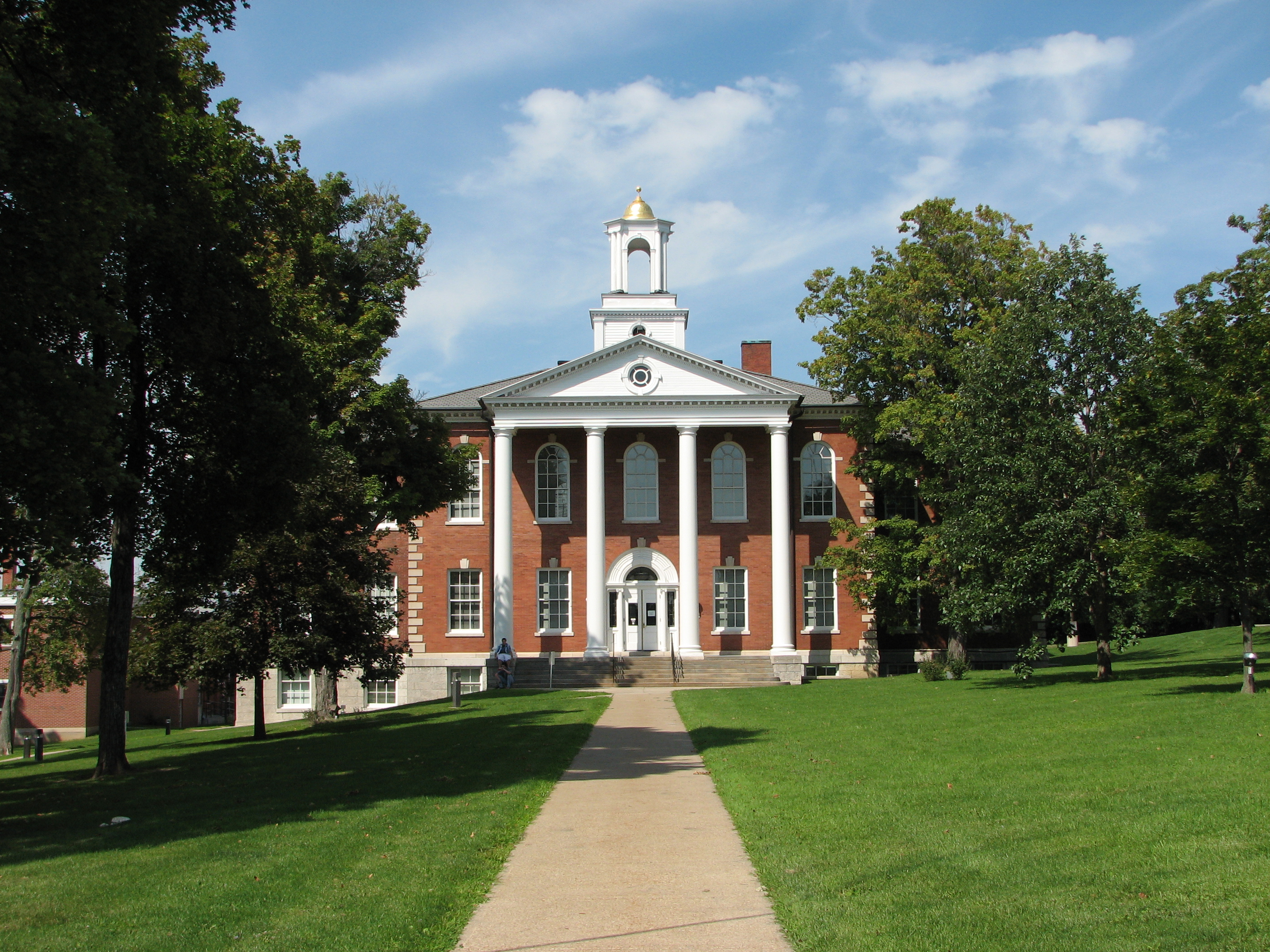 The Livingston County (New York) Courthouse, which contains most of Livingston County's government offices and infrastructure.